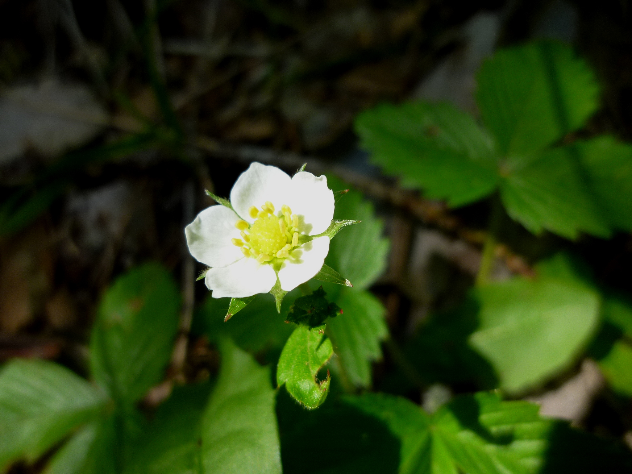 Fragaria vesca. In Guixers (Solsonès - Catalunya), to 850 m. altitude